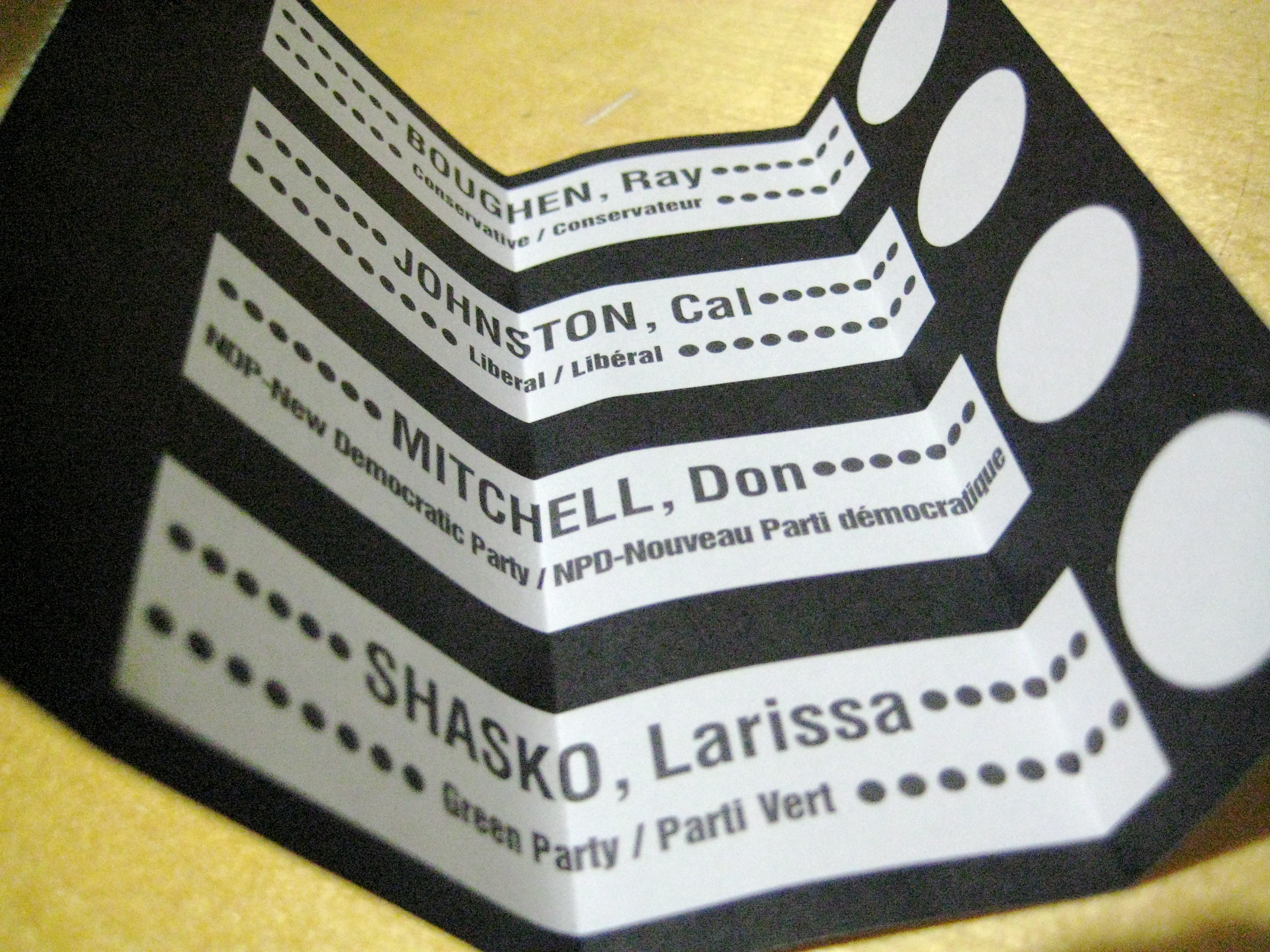 Ballot from the riding of Palliser in Regina, Saskatchewan for the 2008 federal election in Canada.